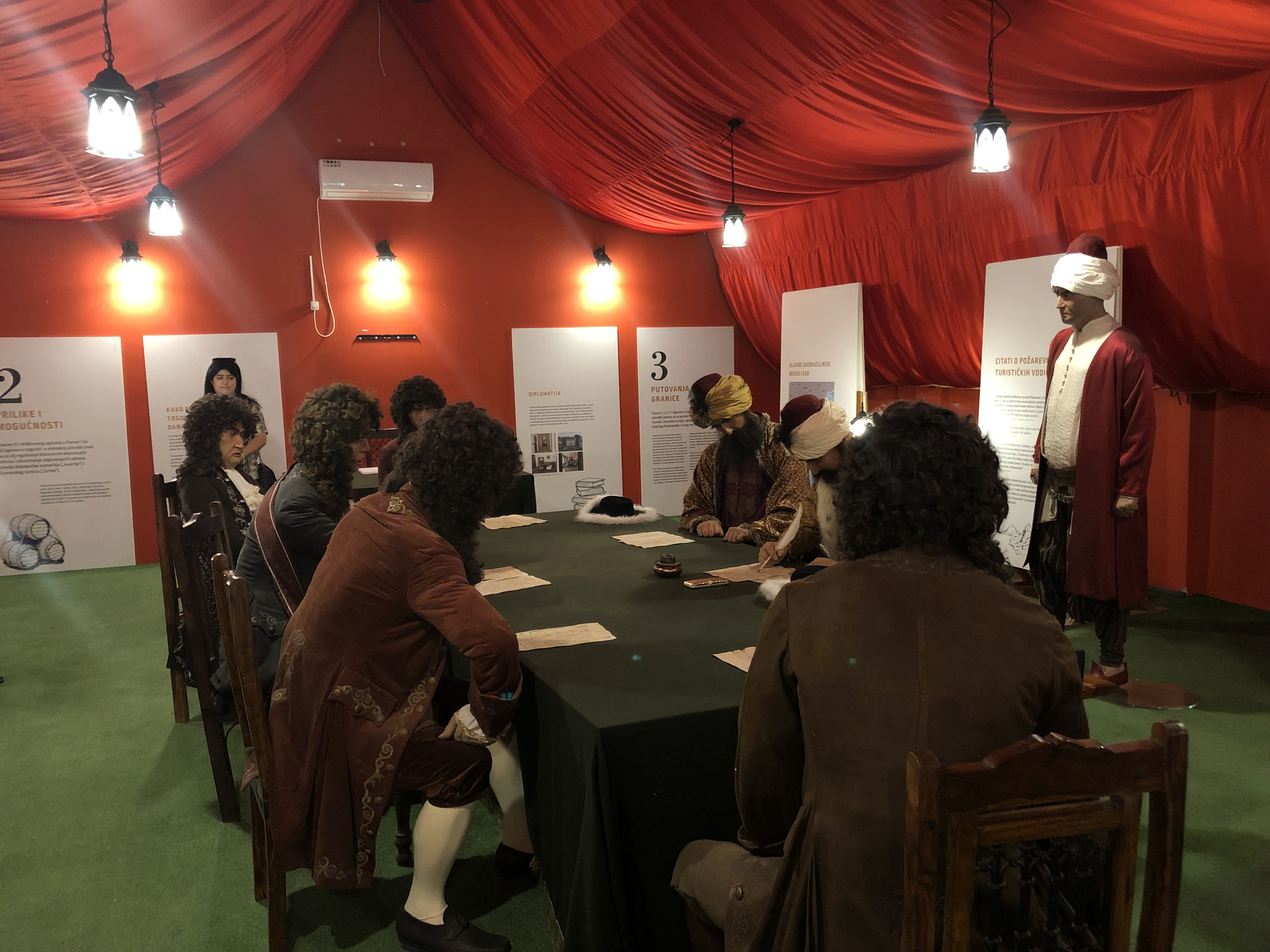 The Treaty of Passarowitz or Treaty of Požarevac was the peace treaty signed in Požarevac.